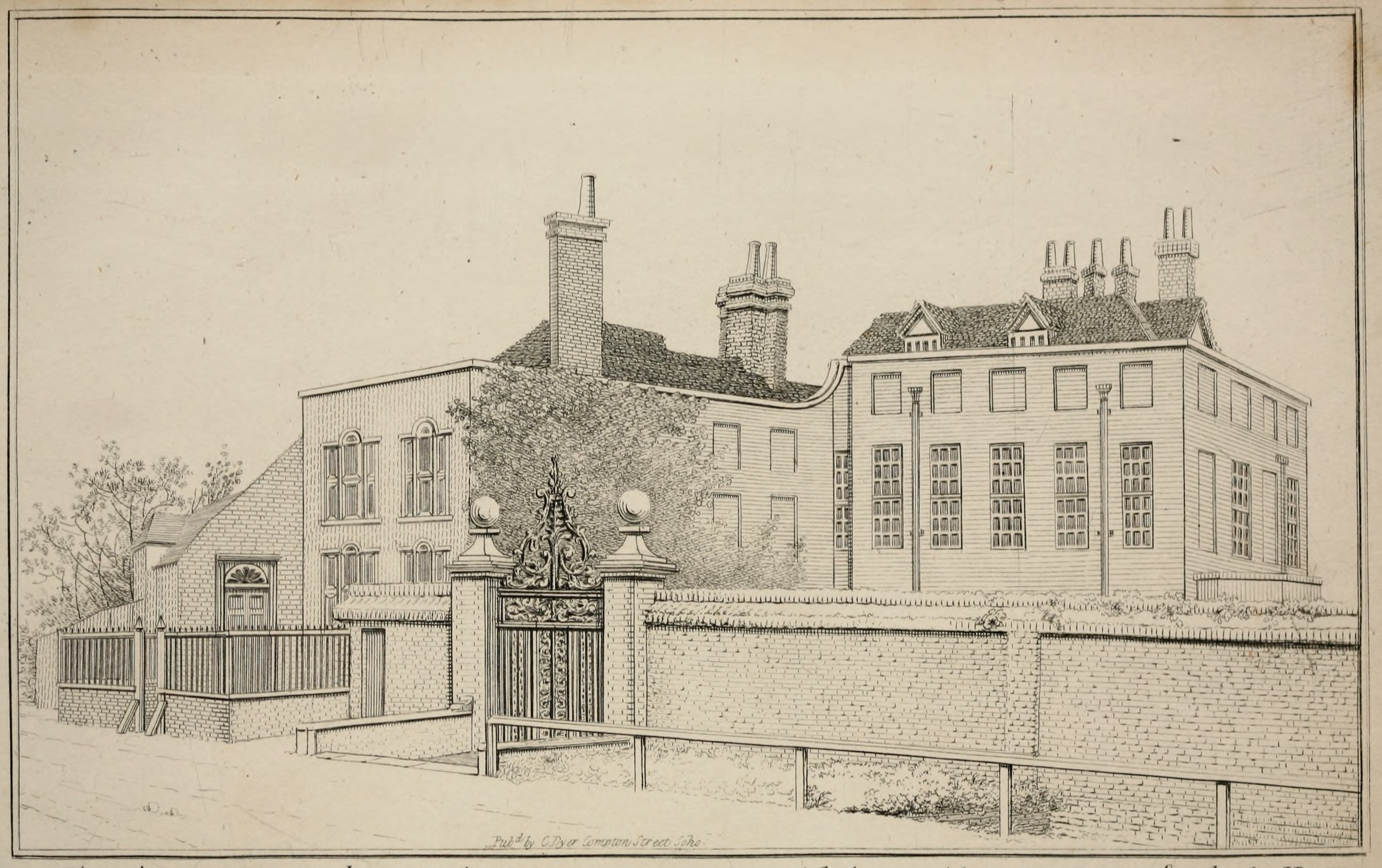 Musaeum Tradescantianum, South Lambeth, Surrey